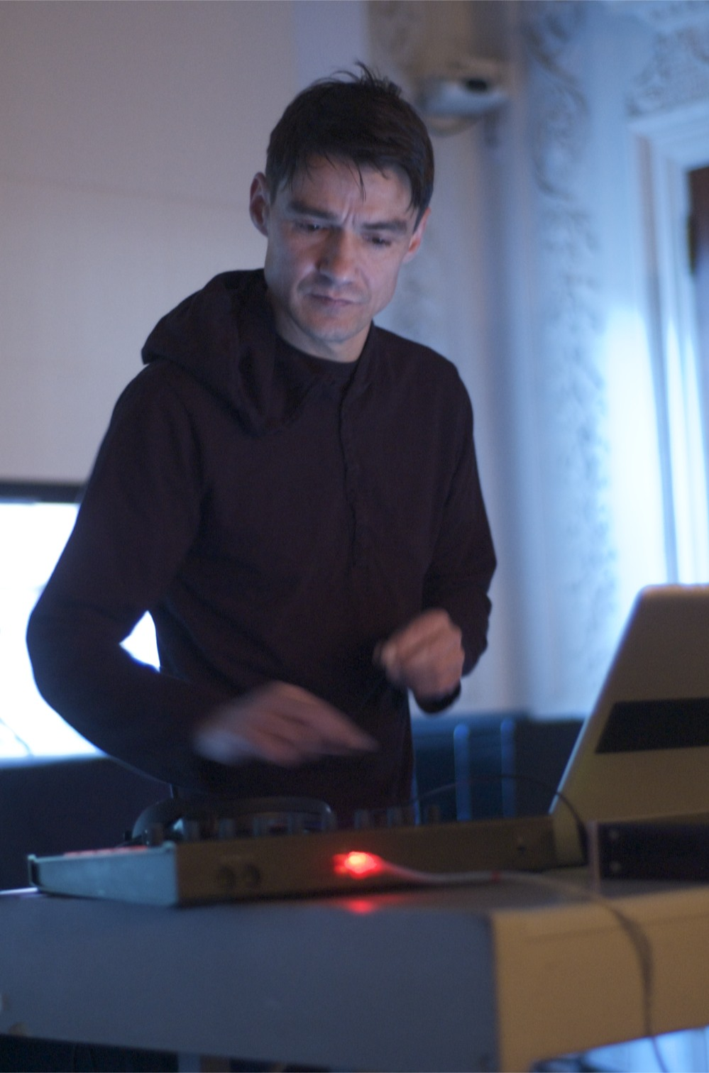 Sound check at the Goethe-Institut Boston, May 13, 2010 (photo: Susanna Bolle)